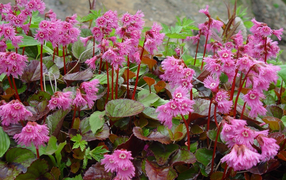 Schizocodon soldanelloides f. alpinus seen in Mount Hakusansyaka